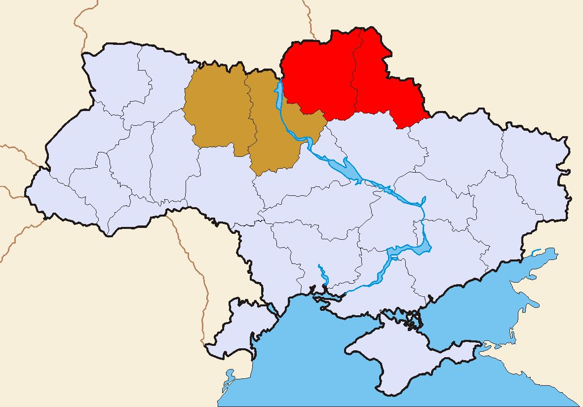 Northern Ukraine. Filled with red - always included. With brown - often included. See also